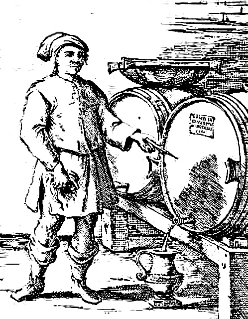 Wine barrel XVIIIe